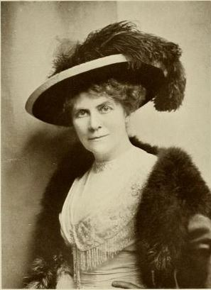 Bessie Morse, Kajiwara Photo, Johnson, Anne (André) "Mrs. Charles P. Johnson", 1871-. Notable women of St. Louis, 1914; (Kindle Location 4402). [St. Louis, Woodward.]